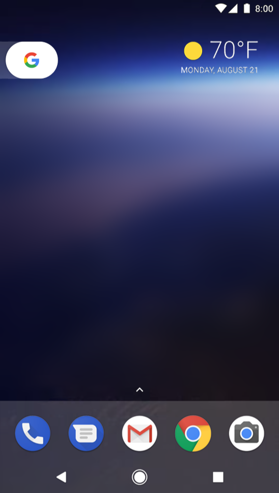 Android Oreo screenshot on a Pixel screenshot.